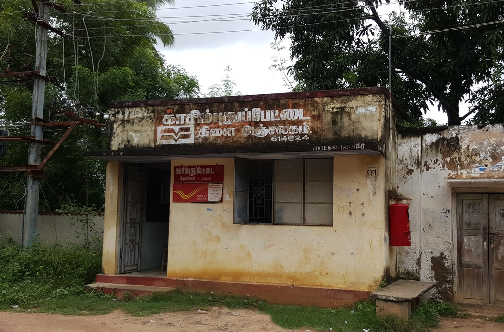 Kasimpuduppettai Branch Post Office